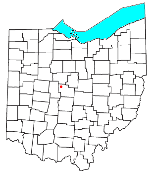 Locator map of the unincorporated community of Radnor in Delaware County, Ohio, United States.